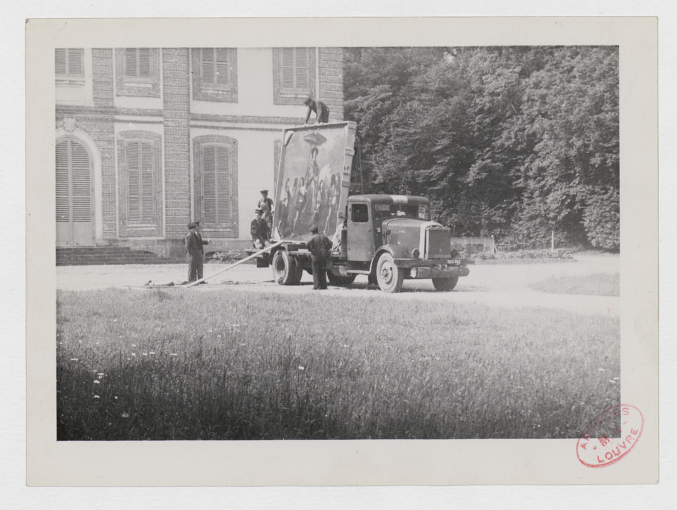 Château de Chèreperrine, évacuation du portrait du chancelier Séguier.